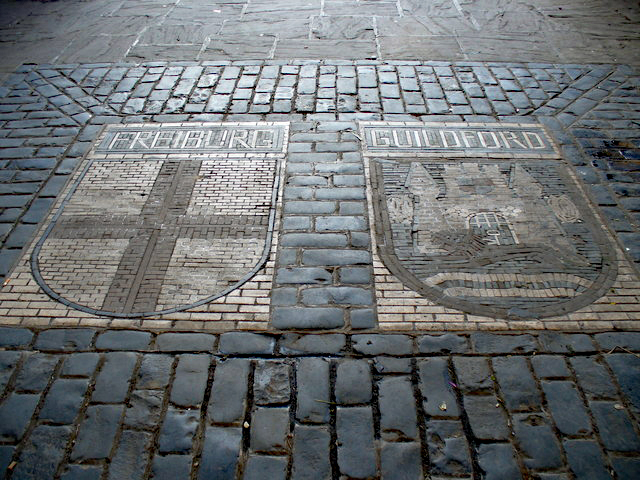 Twin Town Coats-of-Arms The civic coats-of-arms of Guildford and Freiburg-im-Breisgau are set under the Tunsgate Arch (the former Corn Exchange). There are several twinning activities each year e.g. music and school exchanges.